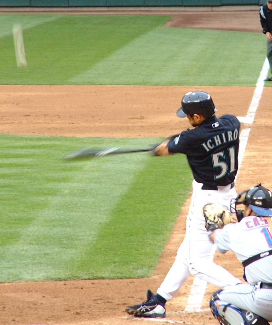 Ichiro's 5th homerun of the year. Taken by the uploader on June 17, 2005 at Safeco Field, Seattle.